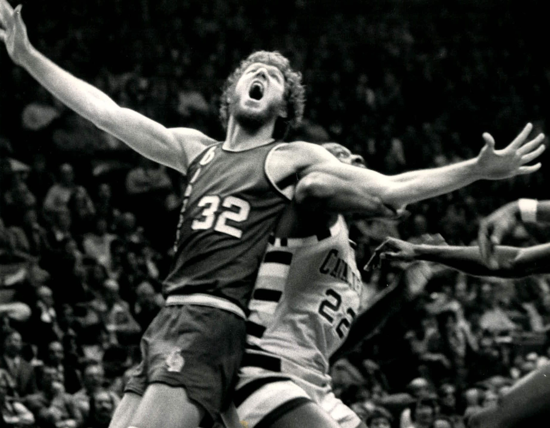 Professional basketball player Bill Walton